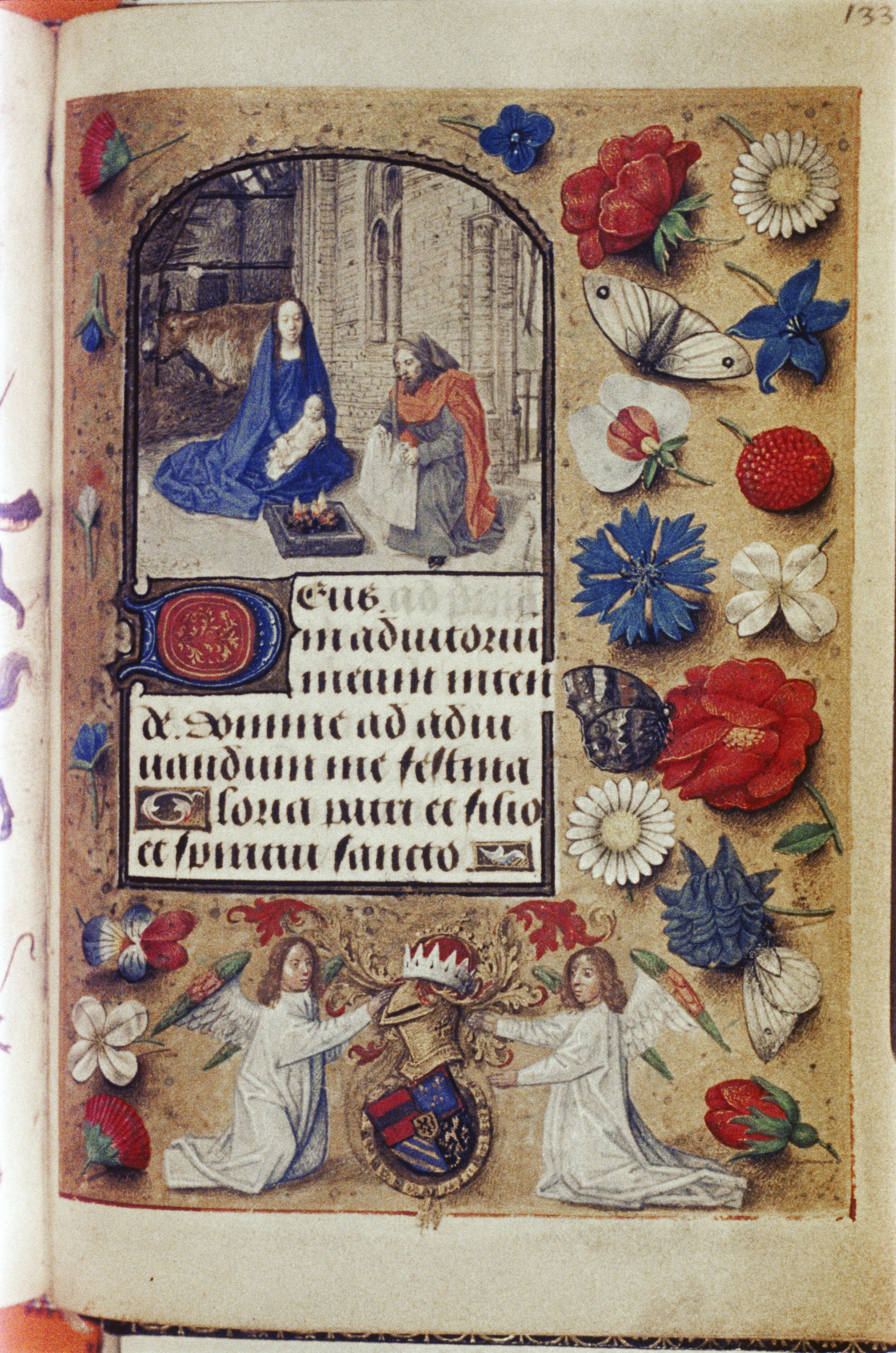 Folio 133r from the Nassau book of hours.